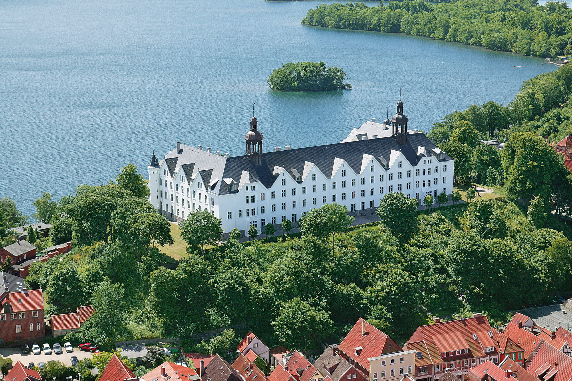 Fielmann Academy for Optical Education at Plön castle in in Northern Germany.